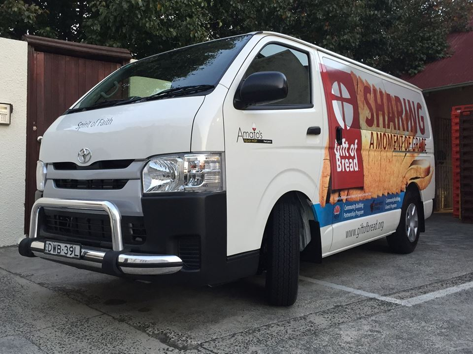 This is the second delivery van of the food rescue charity Gift of BreadPhoto taken on delivery of new van